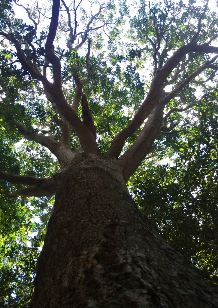 Large Rapanea tree in Cape. South Africa.